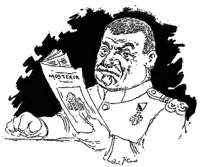 The fictional Captain Moș Teacă shown reading the eponymous magazine.